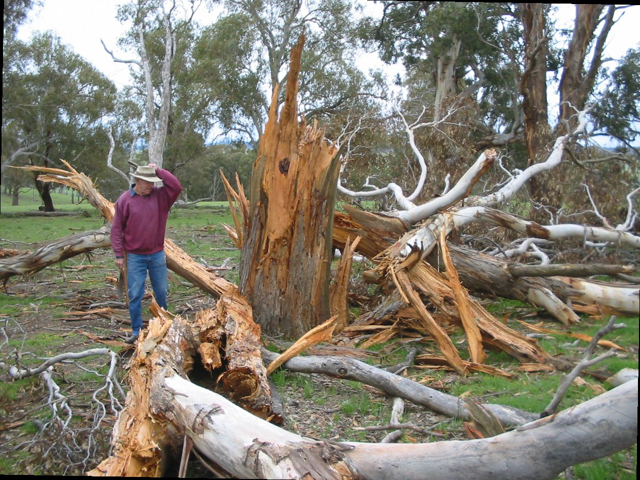 Eucalyptus tree that was blown apart by a lightning strike, Walcha, NSW